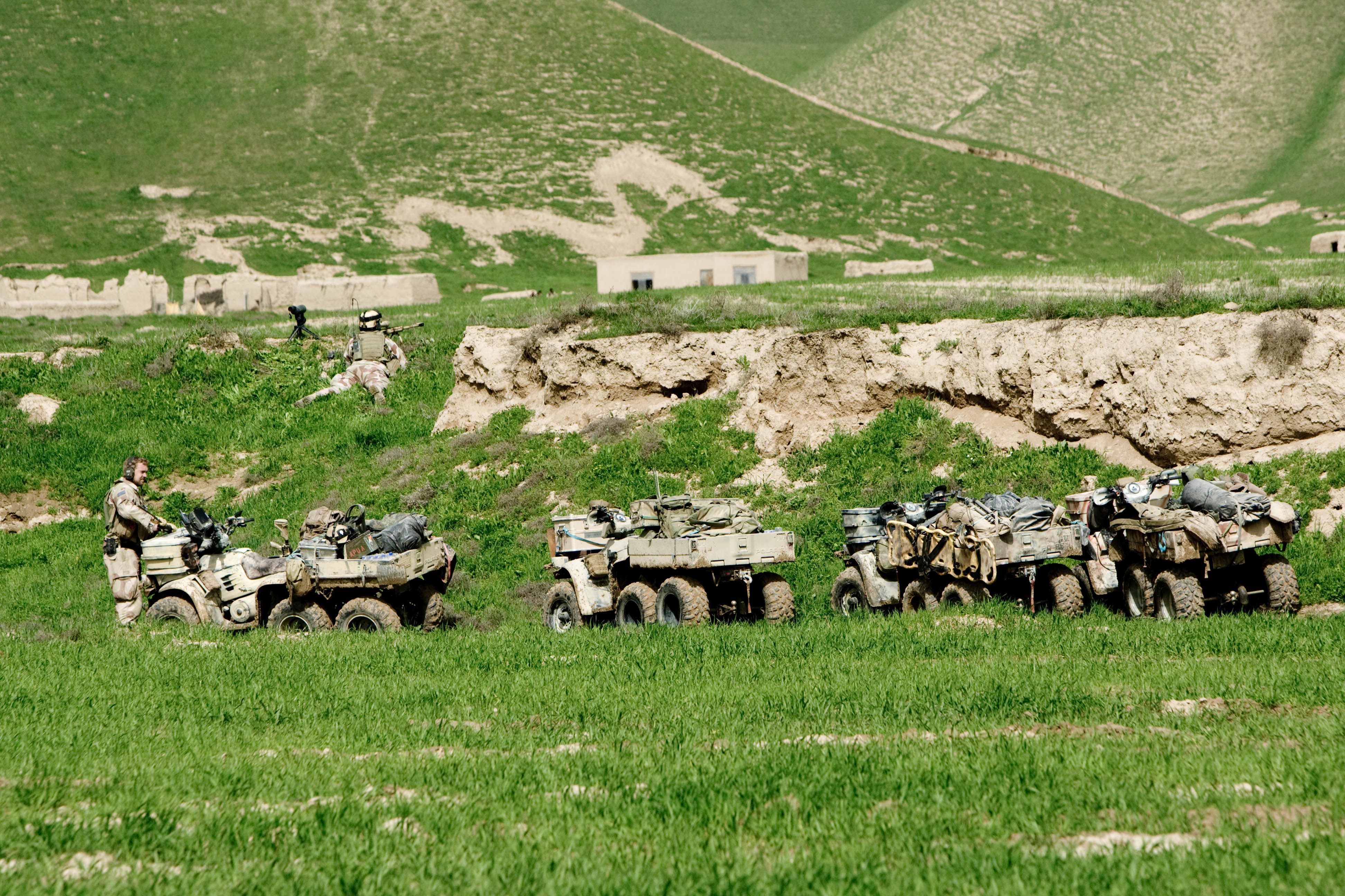 Norwegian soldiers with Polaris Bigboss 6WD All-Terrain-Vehicles operate in Faryab province, Afghanistan.